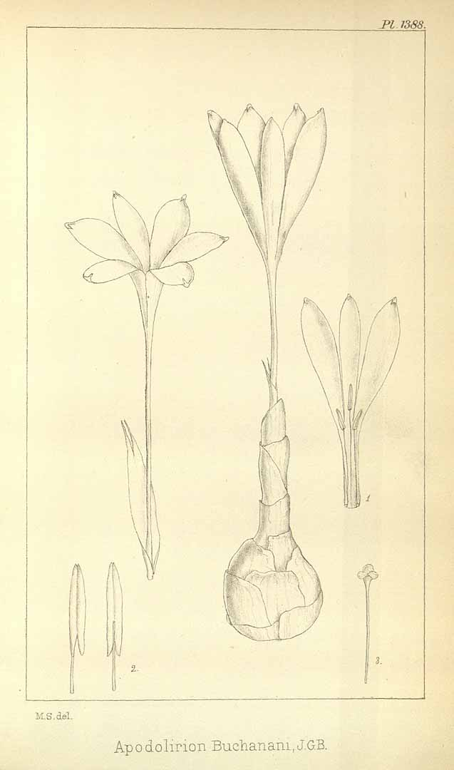 Drawing of Apodolirion buchanii